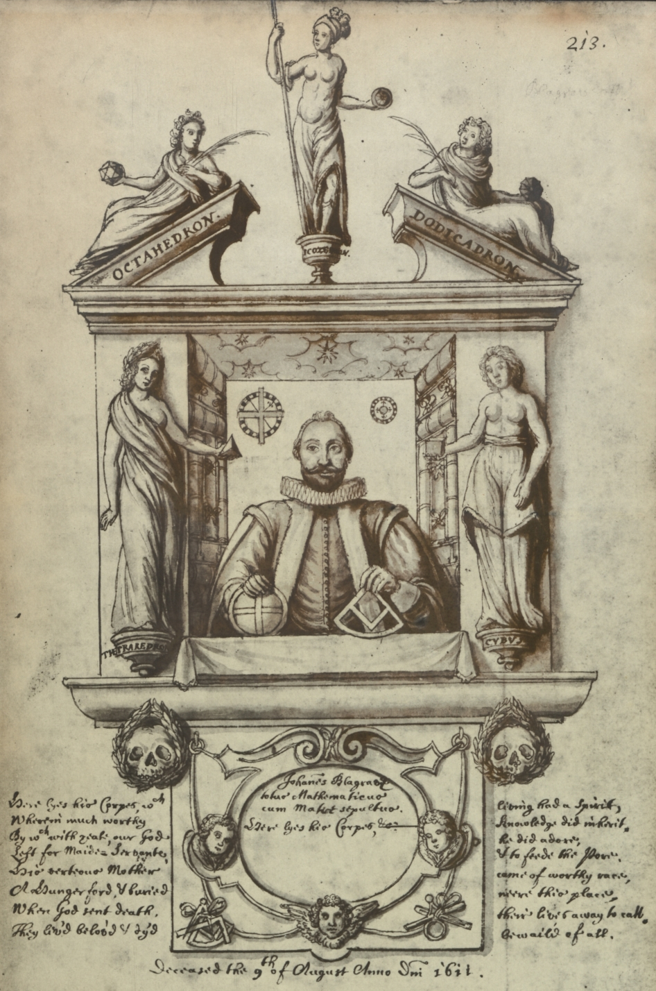 Drawing of the funerary monument to John Blagrave in St Laurence's Church, Reading. The funerary monument was carried out by Gerard Christmas, the author of this drawing is unknown. Blagrave is depicted surrounded by allegorical mathematical figures, with five women each holding the five platonic solids and Blagrave (in the center) depicted holding a globe and a quadrant.